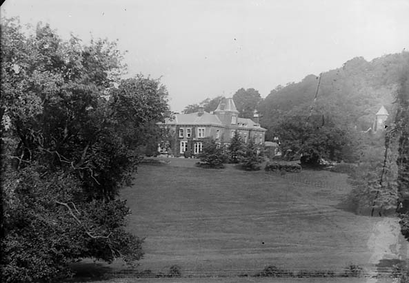 1 negative : glass, dry plate, b&w ; 12 x 16.5 cm.